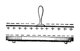 Drawing of an electrophorus from around 1900, showing electric charges. The electrophorus is a static electricity generator invented by Johan Carl Wilcke around 1762. The negative charge on the lower dielectric induces a separation of charge in the upper metal plate, with positive charges attracted to its lower surface and negative charges repelled to its upper surface. The upper surface of the plate is then momentarily grounded, draining off the negative charge, leaving the plate with a positive charge. Alterations: Removed captions and part labels, moved upper and lower plates farther apart to make it clearer.